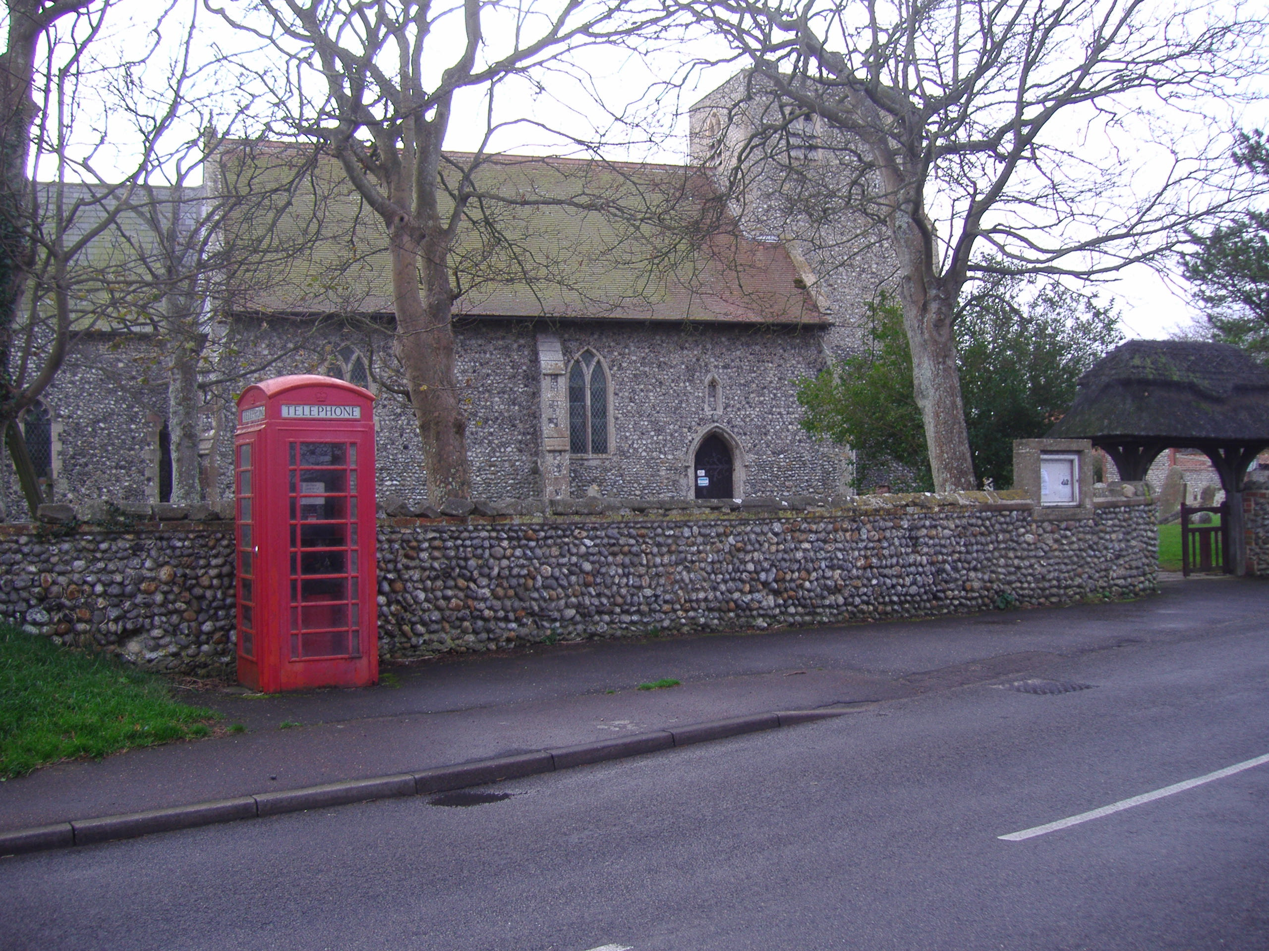 A Digital Photograph of the parish church at Trimingham, Norfolk, taken on the 10th November 2007 by stavros1